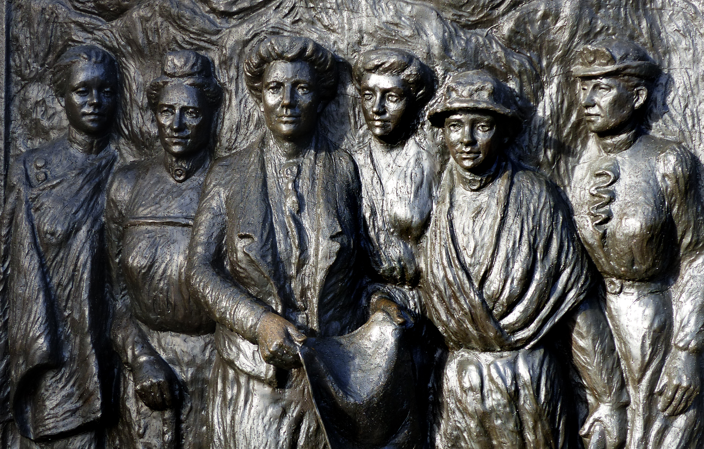 About the Memorial The Memorial, the work of sculptor Margriet Windhausen, comprises a 3.3m by 2.1m bronze bas-relief supported by a 5m pebbled wall. The Memorial stands in a landscaped area beside the Avon River on Oxford Terrace known as the Kate Sheppard National Memorial Reserve. It is the only National Memorial in Christchurch and is the only New Zealand monument depicting the fight for women’s suffrage. The central panel depicts life size figures of Kate Sheppard and other leaders of the suffrage movement. Smaller panels depict women of the time in typical everyday settings. Bronze panels record a written history of Kate Sheppard and the suffrage movement. A time capsule enclosed in the wall contains a record of the donors and material relevant to women’s lives in 1993. The six women are Kate Sheppard (1847 – 1934), Meri Te Tai Mangakāhia (1868 – 1920), Amey Daldy (1829 – 1920), Ada Wells (1863 – 1933), Harriet Morison (1862 – 1925), and Helen Nicol (1854 – 1932).